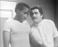 Saad Khadr and Mohammad Al-Ali, In the serial Saudi "days to forget" (Arabic: أيام لاتنسى) in 1974.